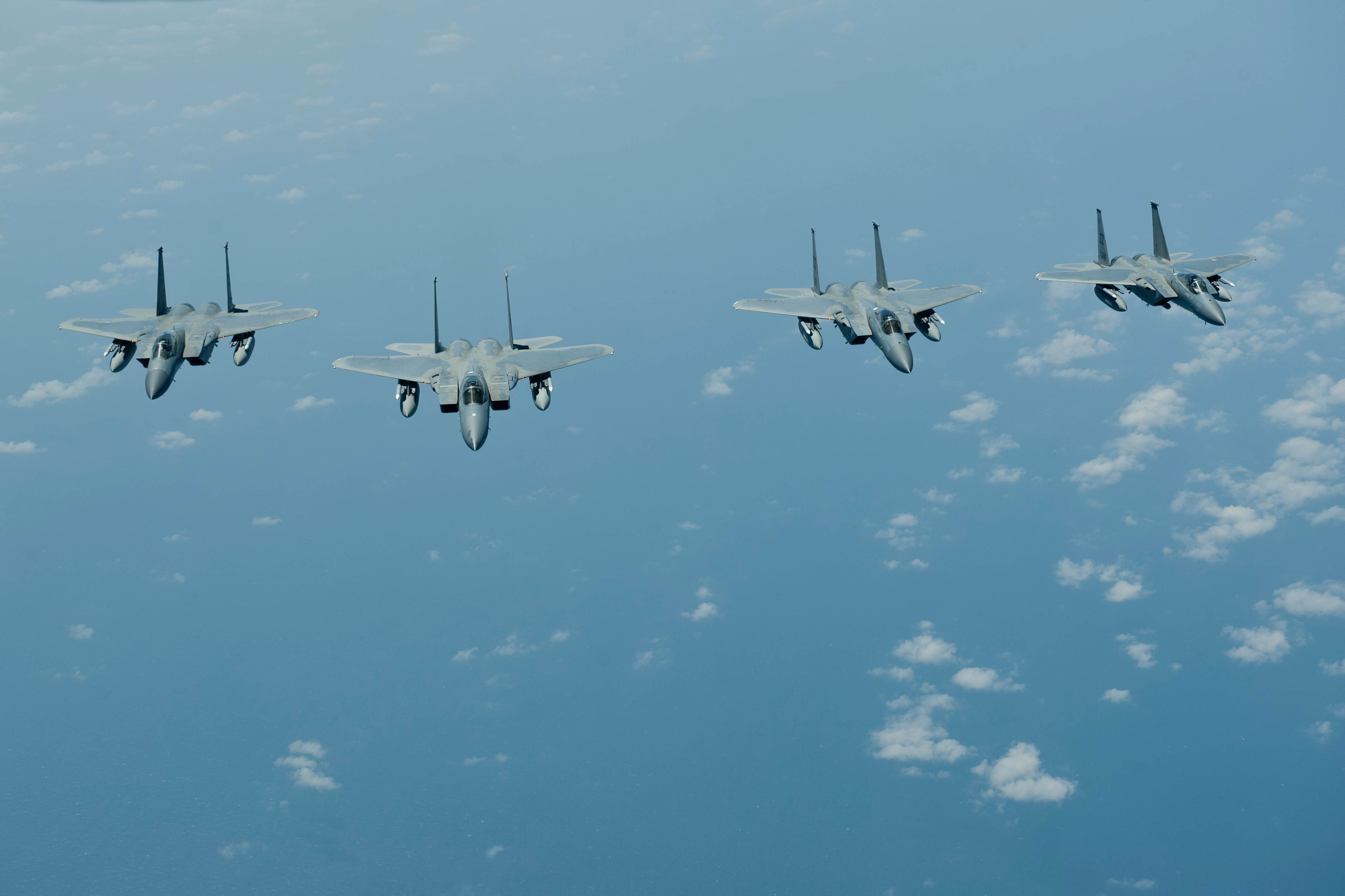 Four F-15C Eagles with the 44th Fighter Squadron fly in formation March 21, 2016, off the coast of Japan. The F-15C is an all-weather, highly maneuverable tactical fighter that enables the Air Force to gain and maintain air supremacy over the battlefield. (U.S. Air Force photo/Senior Airman Peter Reft)